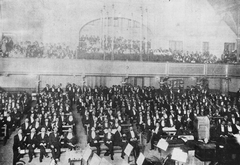 Audience photograph of a 'Liedertafel smoke concert' held in the Exhibition Concert Hall, Bowen Hills, 1901. A large audience is seated in the Exhibition Concert Hall to hear a Liedertafel smoke concert. Liedertafel is a German term referring to a gathering of men who meet to listen to male chiors or male part songs. This photograph appears to be taken from the stage and consists of men. Women and men appear to be seated in the stalls on the second level.